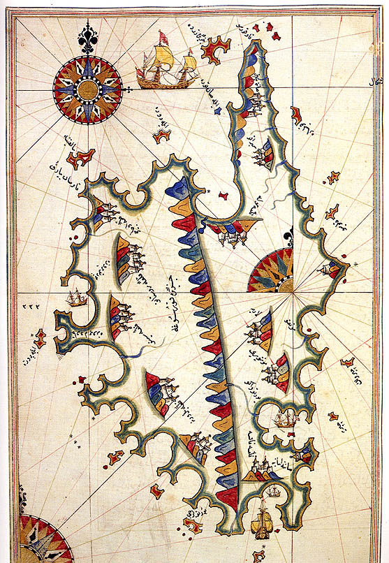 Corsica in France on the Kitab-Ä± Bahriye (Book of Navigation) of Piri Reis